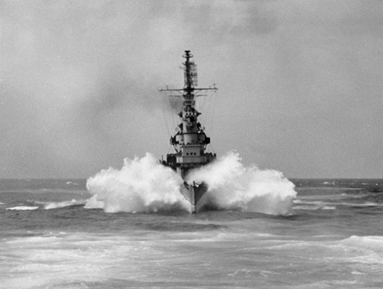 The U.S. Navy light cruiser USS Miami (CL-89) steaming in heavy seas during her shakedown cruise on 17 February 1944.